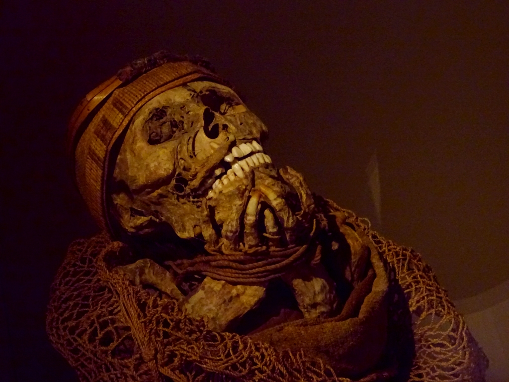 Close-up in landscape of the Muisca mummy in the Museo del Oro (Gold Museum), Bogotá, Colombia